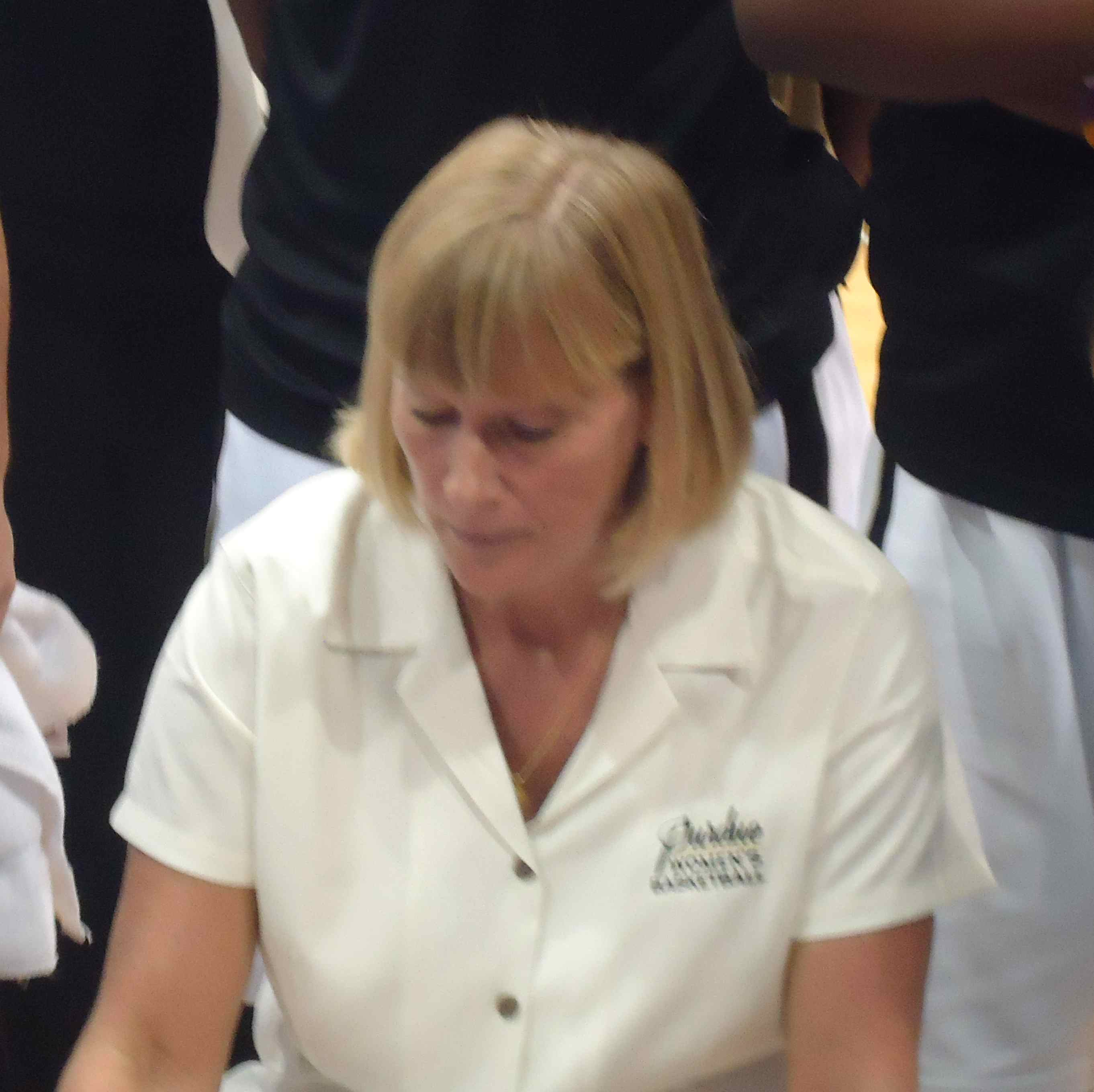 Sharon Versyp, coaching her team on the sidelines at Paradise Jam 2012, in St. Thomas, US Virgin Islands